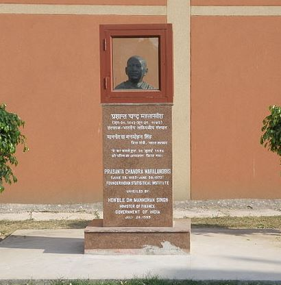 Statute of founder Prasanta Chandra Mahalanobis at Indian Statistical Institute, Delhi Centre.